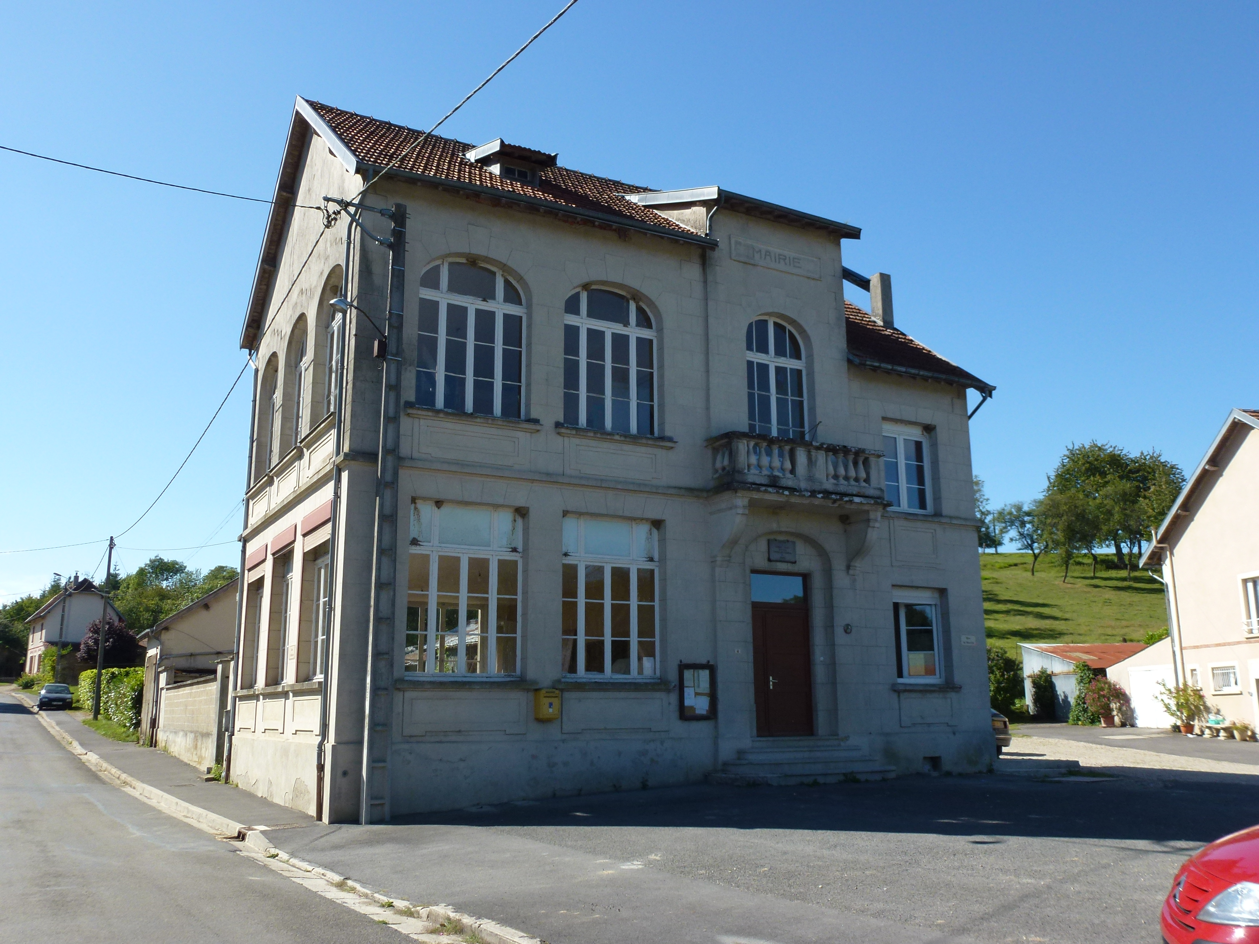 Guincourt (Ardennes) mairie